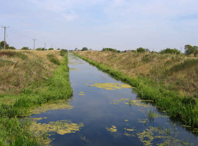 South Forty Foot Drain from Neslam Bridge, Pointon, Lincolnshire, England.